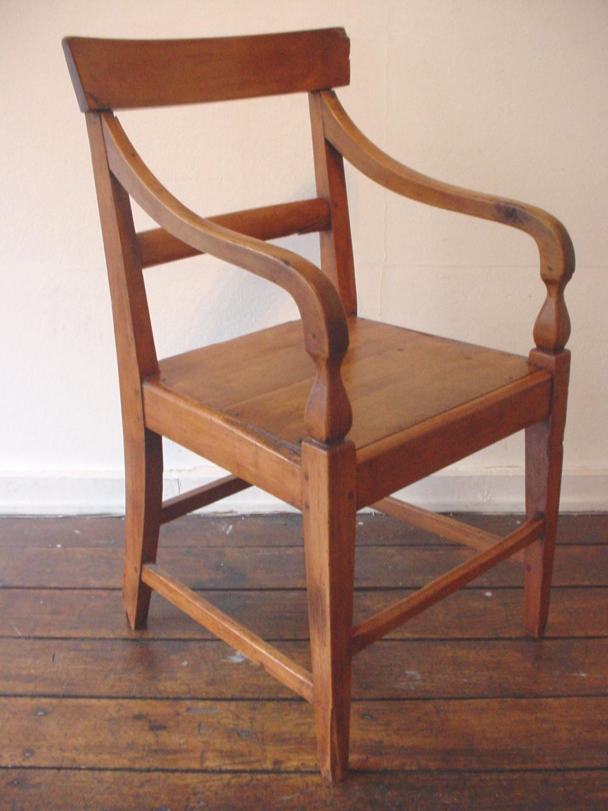 Chair, New Zealand rimu attributed to the Johnny Jones whaling station - settlement, near Waikouaiti, Dunedin, pre 1840. The New Zealand timber chair is a simplified Regency period, Sheraton styled dining chair with arms and flat integral wooden seat. Attributed to the Johnny Jones whaling station, near Waikouaiti, north of Dunedin the item is a very rare early example of domestic New Zealand made seated furniture used by colonists, whalers or traders. It complements the whalebone chair (1998.81.1) attributed to the Johhny Jones Waikoaiti settlement (near Dunedin) whaling station.